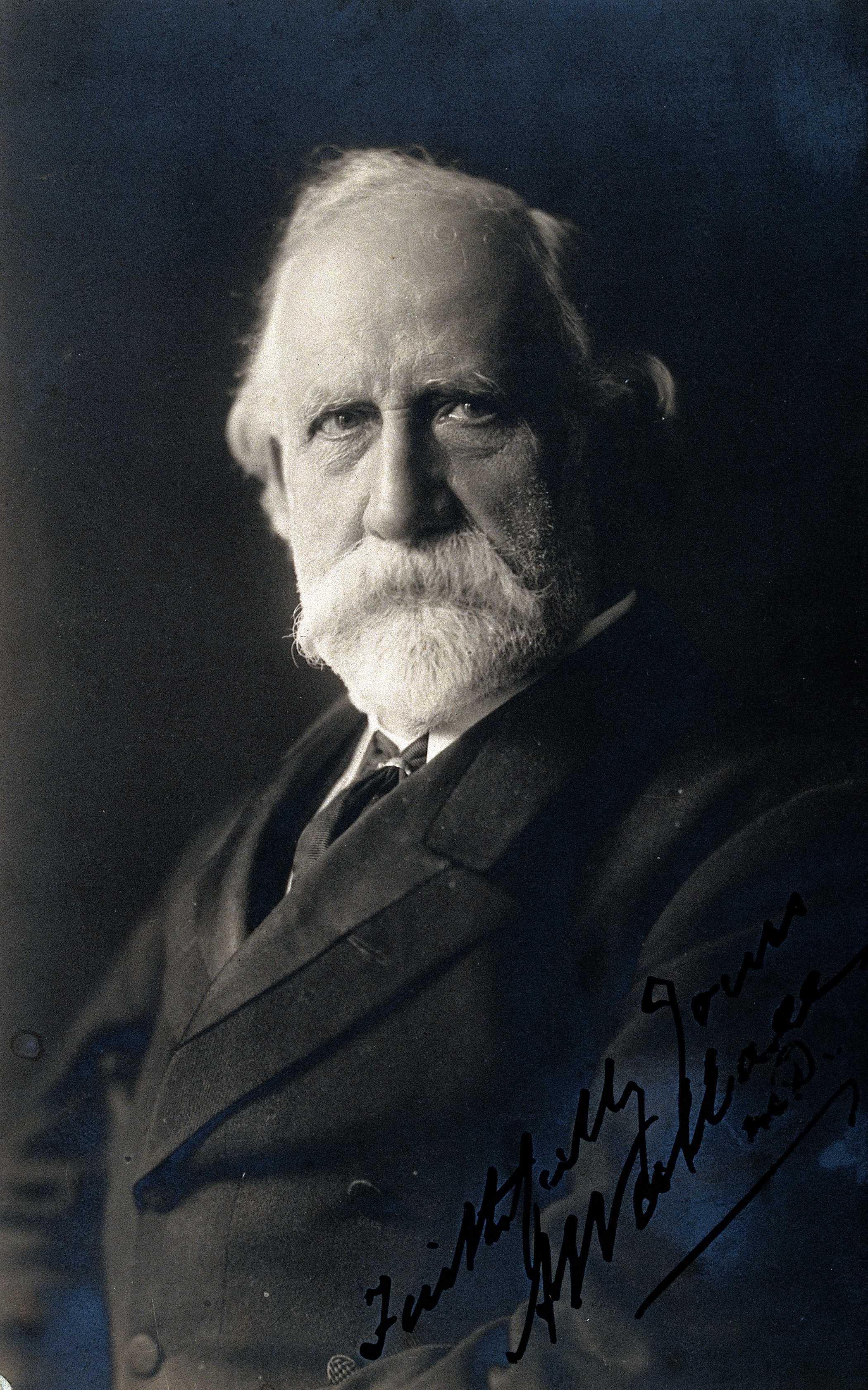 Abraham Wallace. Photograph. Former pupil of Lister's, physician and first president of the Society for the Study of Supernormal Pictures Iconographic Collections Keywords: portrait photographs